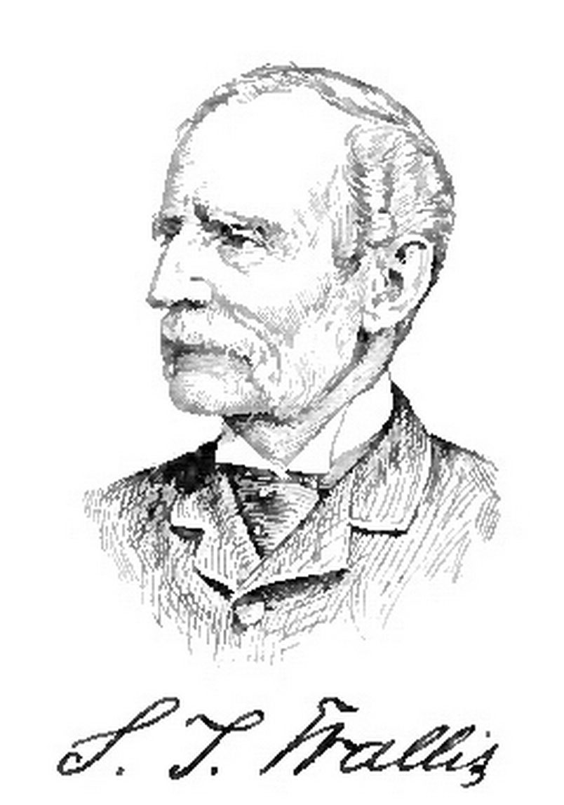 Scanned and cleaned old and yellowed image (1889) of Severn Teackle Wallis. I also enlarged it.